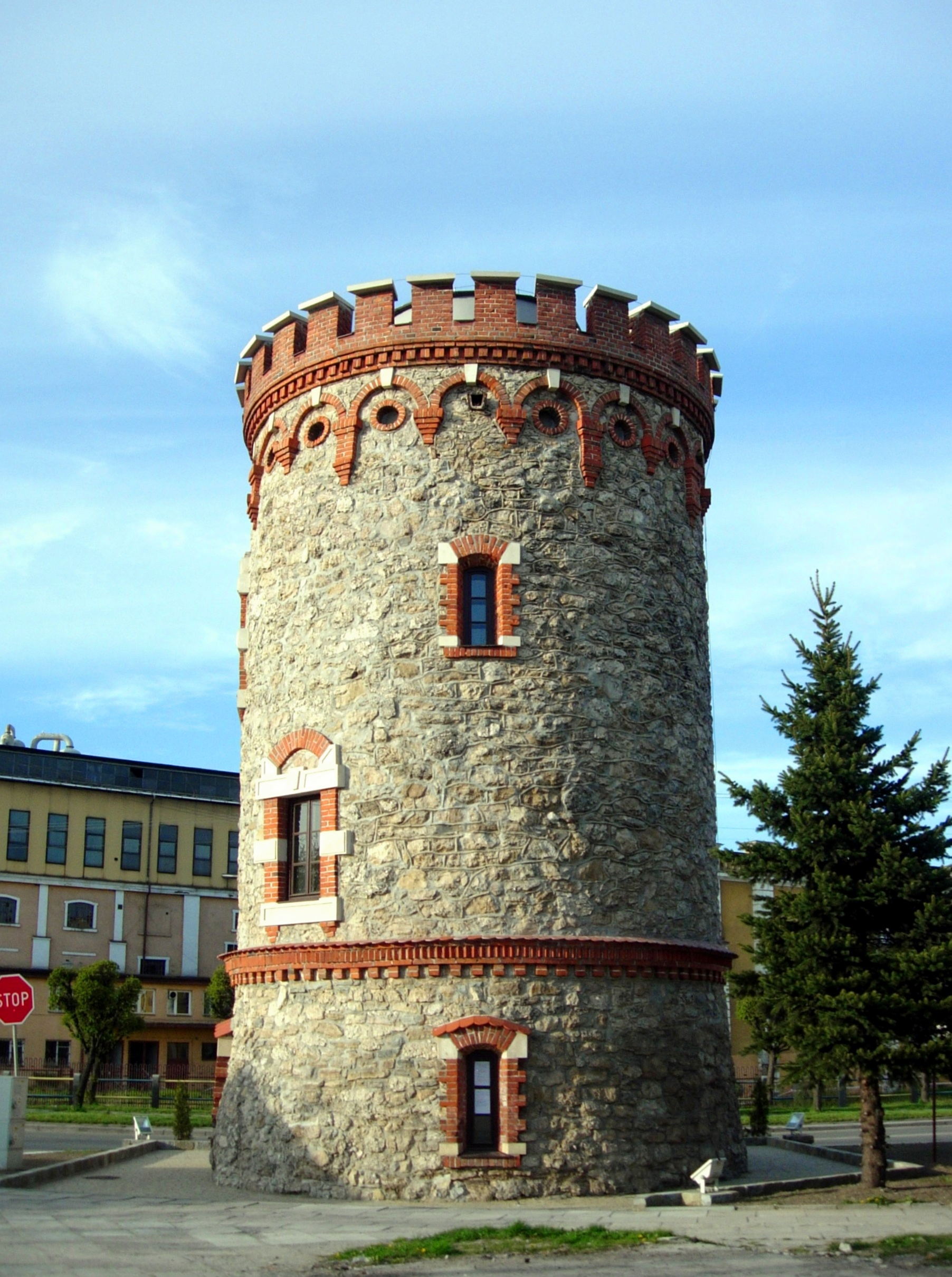 The tower in Kazimierza Wielka, built at the beginning of XX c.